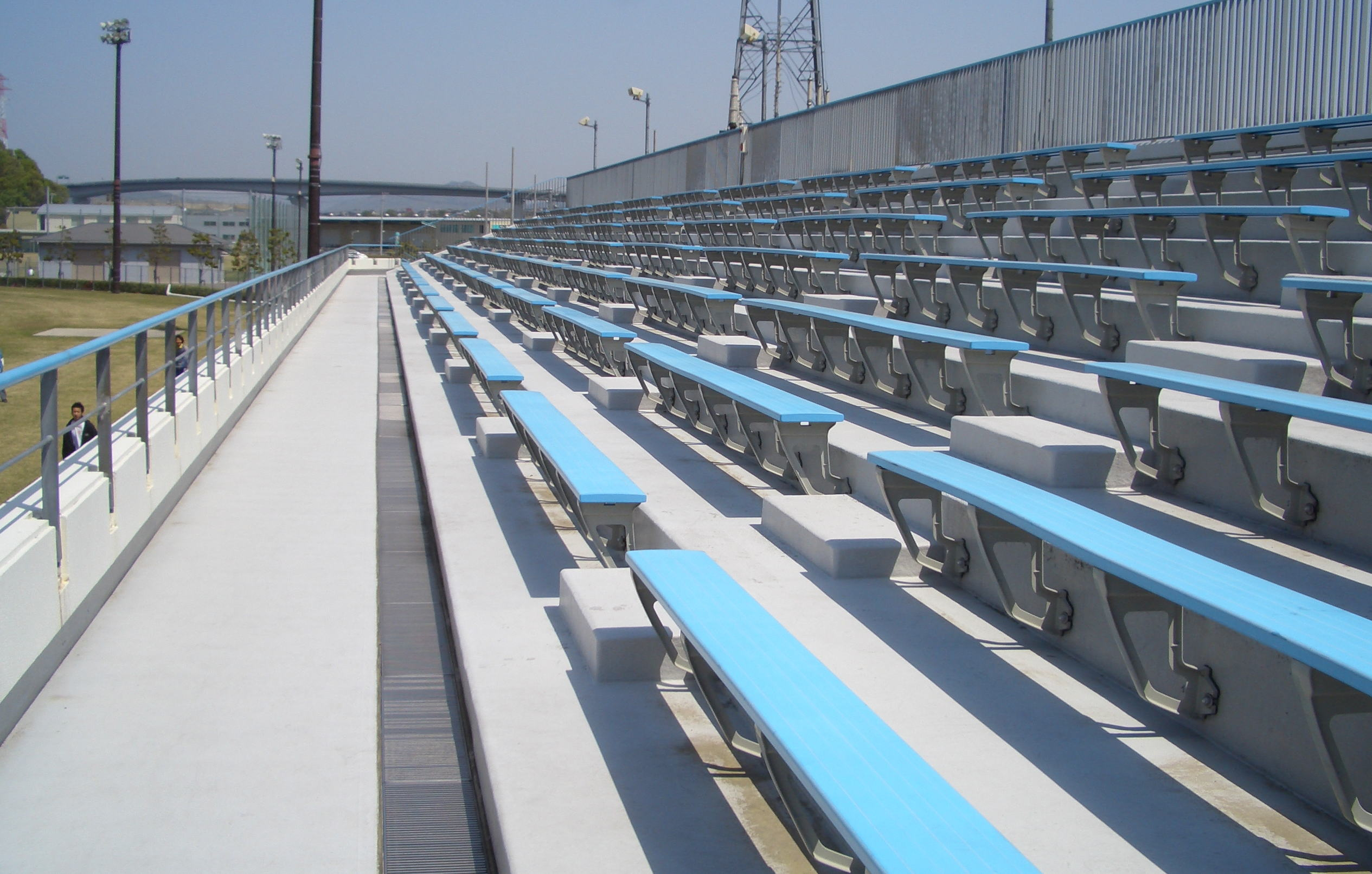 Athretic Ground of Chubu Electric Campany at Hiroshima Pref